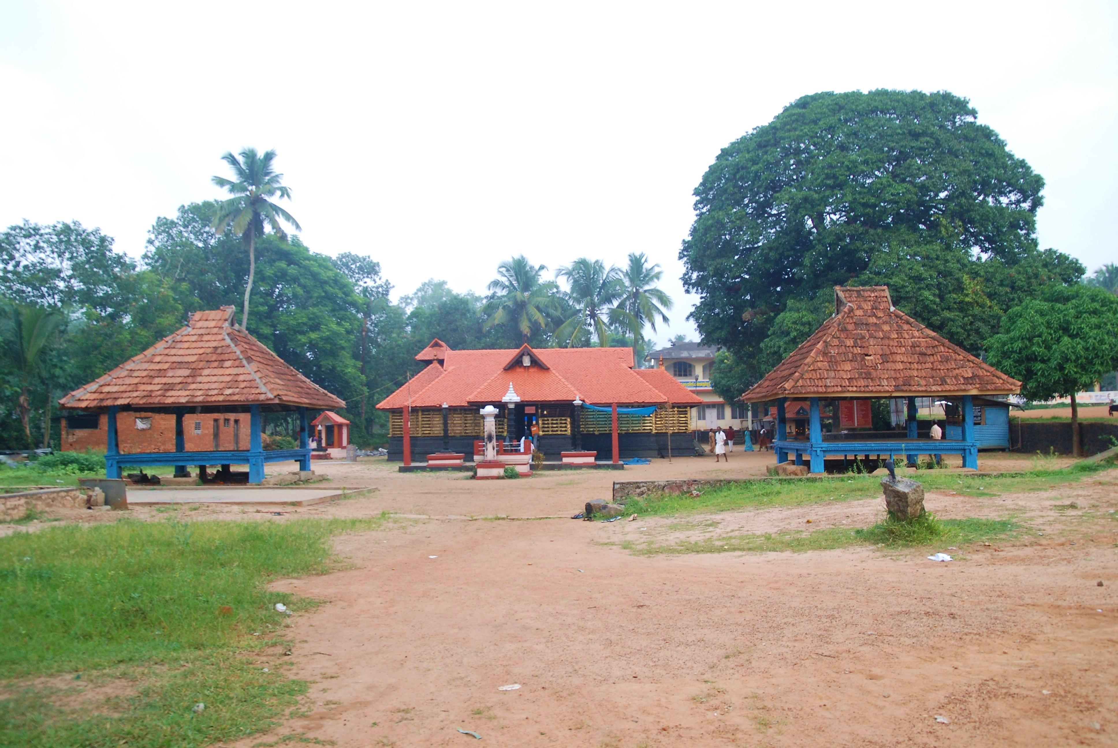 Thalavoor Sri Durga Devi Temple. A famous temple in Thalavoor village.